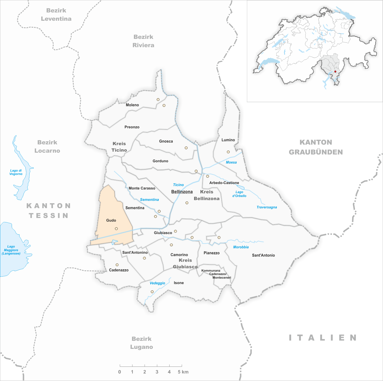 Municipality Gudo